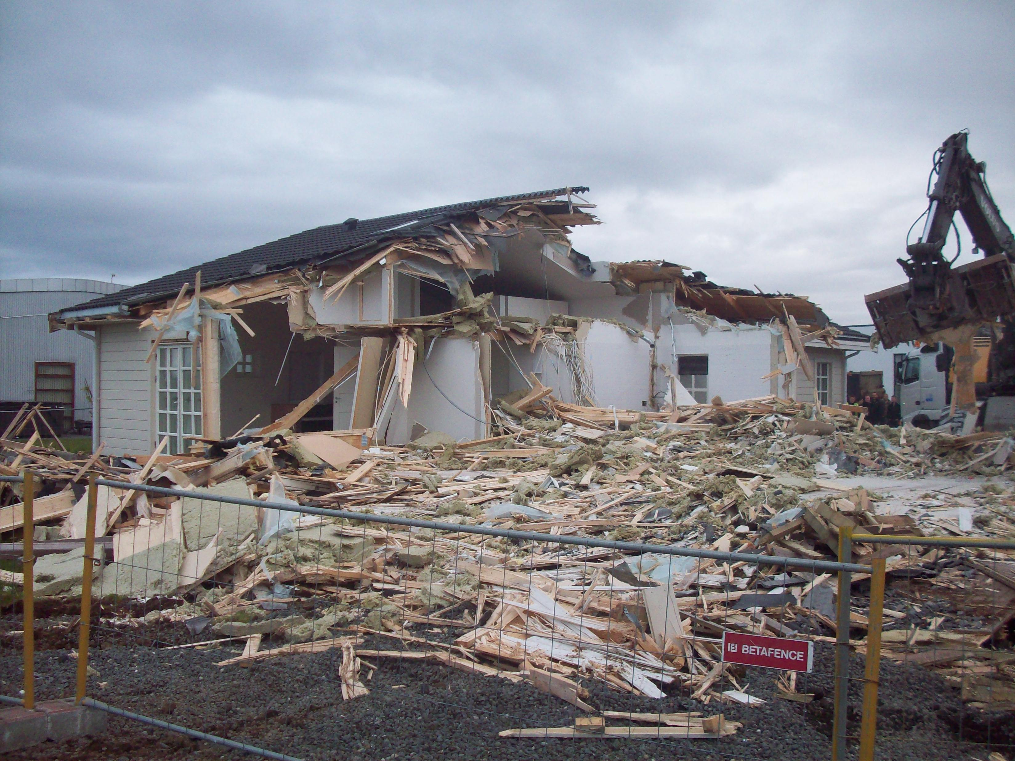 Contractor clears out the remains of a house in Álftanes municipality in the Greater Reykjavík area. The ex owner rented an excavator and demolished the house after the bank had repossessed the house and auctioned it away.